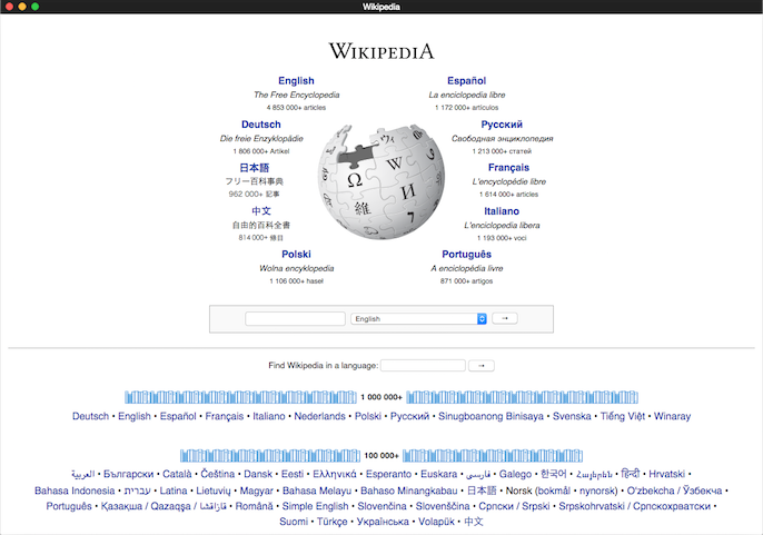 Chrome-free user interface of the Vivaldi web browser on OS X